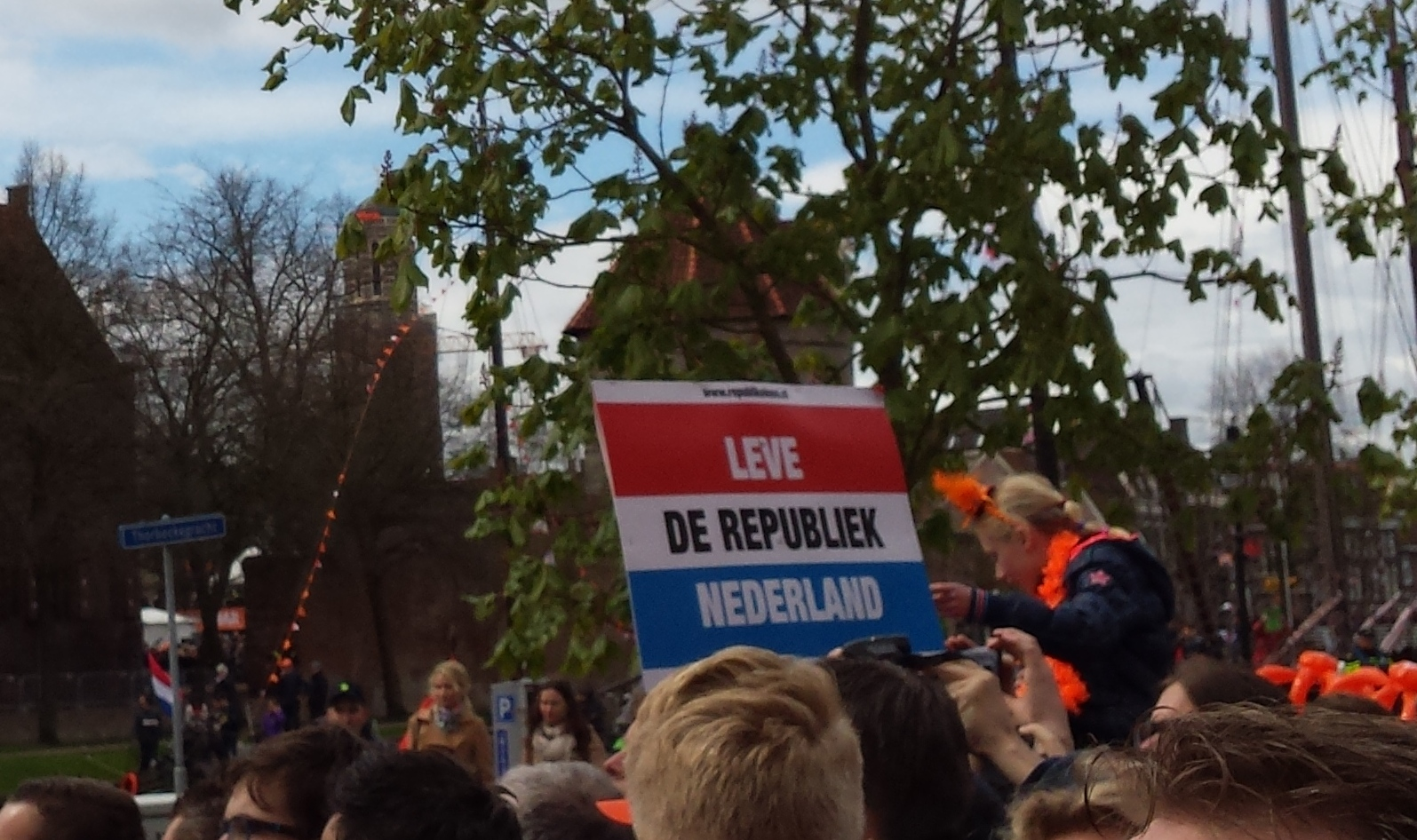 During koningsdag 2016 in Zwolle, republicans protested against the Dutch monarchy. The sign says: "Long live the Republic of the Netherlands."